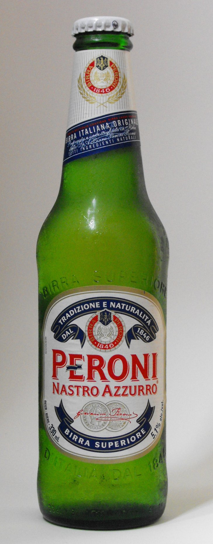 Peroni Nastro Azzurro beer bottle. This bottle is the Canadian import version with French and English bilingual text.